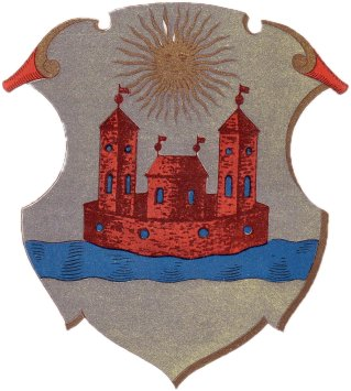 Old coat of arms of Hämeenlinna, in use until 1956 when it was replaced by the present one.